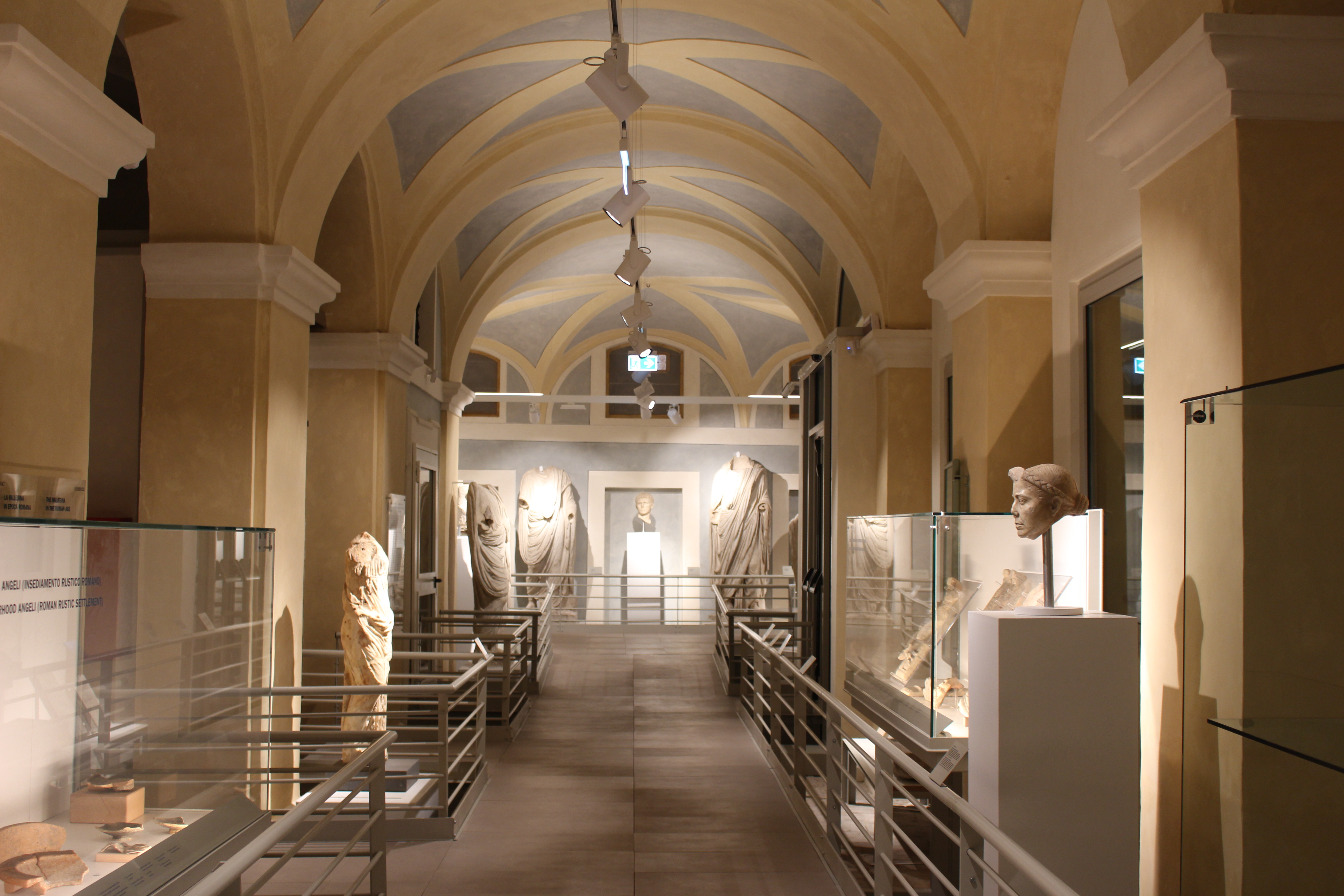 Nuovo allestimento del Museo archeologico